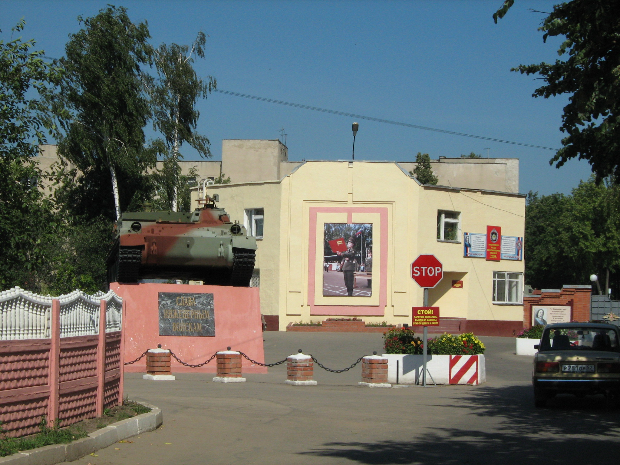 Nizhny Novgorod Military Engineering College in the city of Kstovo